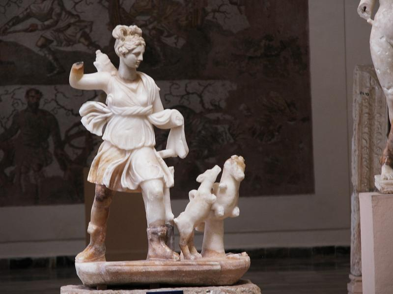 Statue of Diana, the Roman goddess of hunting. Archeological Museum of Cherchell.